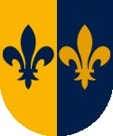 Coat of Arms of the Fugger family (en, de)